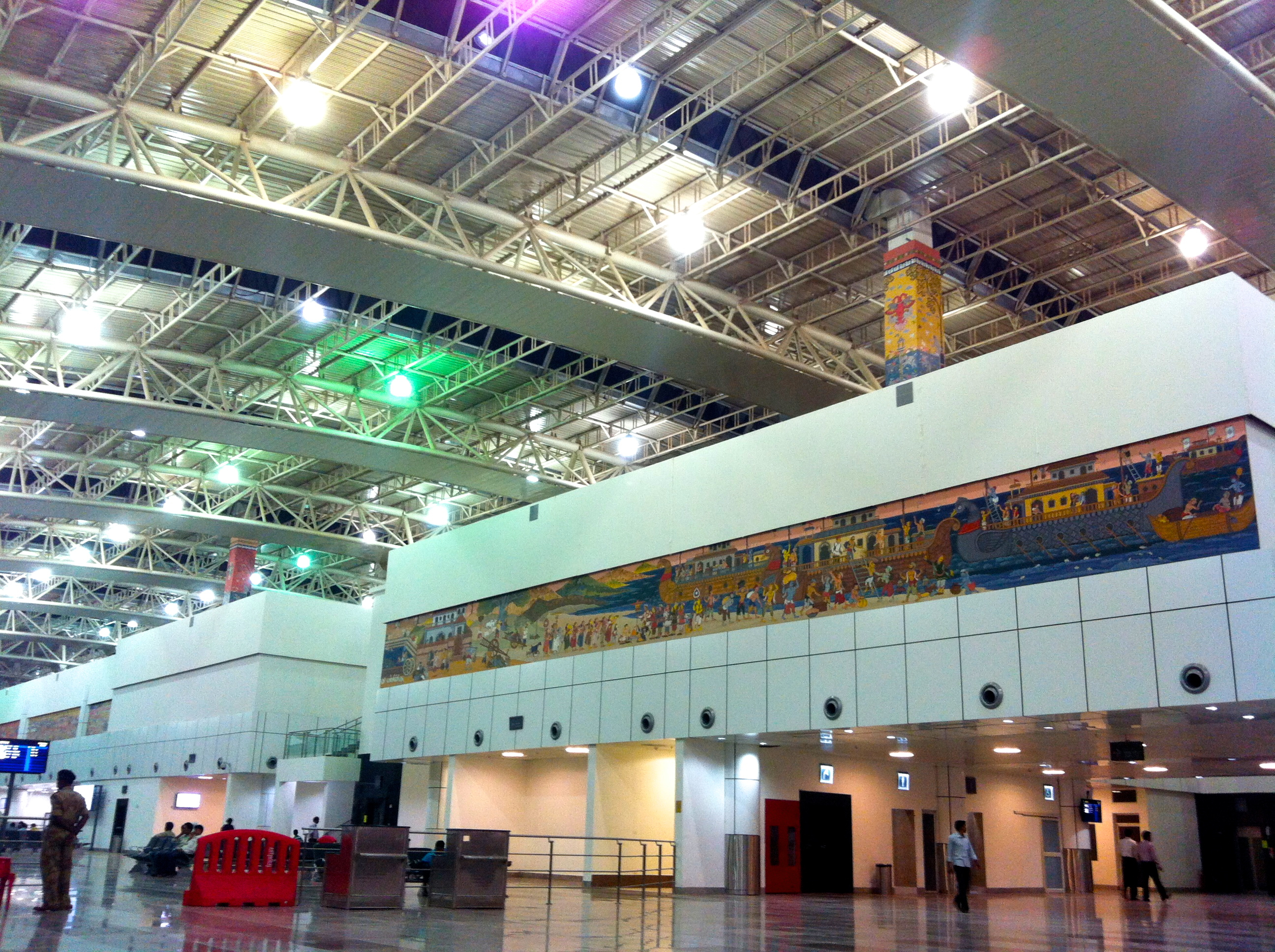 T1, Biju Patnaik Airport, Bhubaneswar, Odisha, India